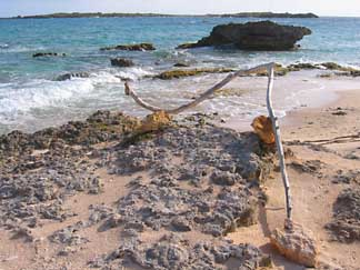 Western tip Anguillita